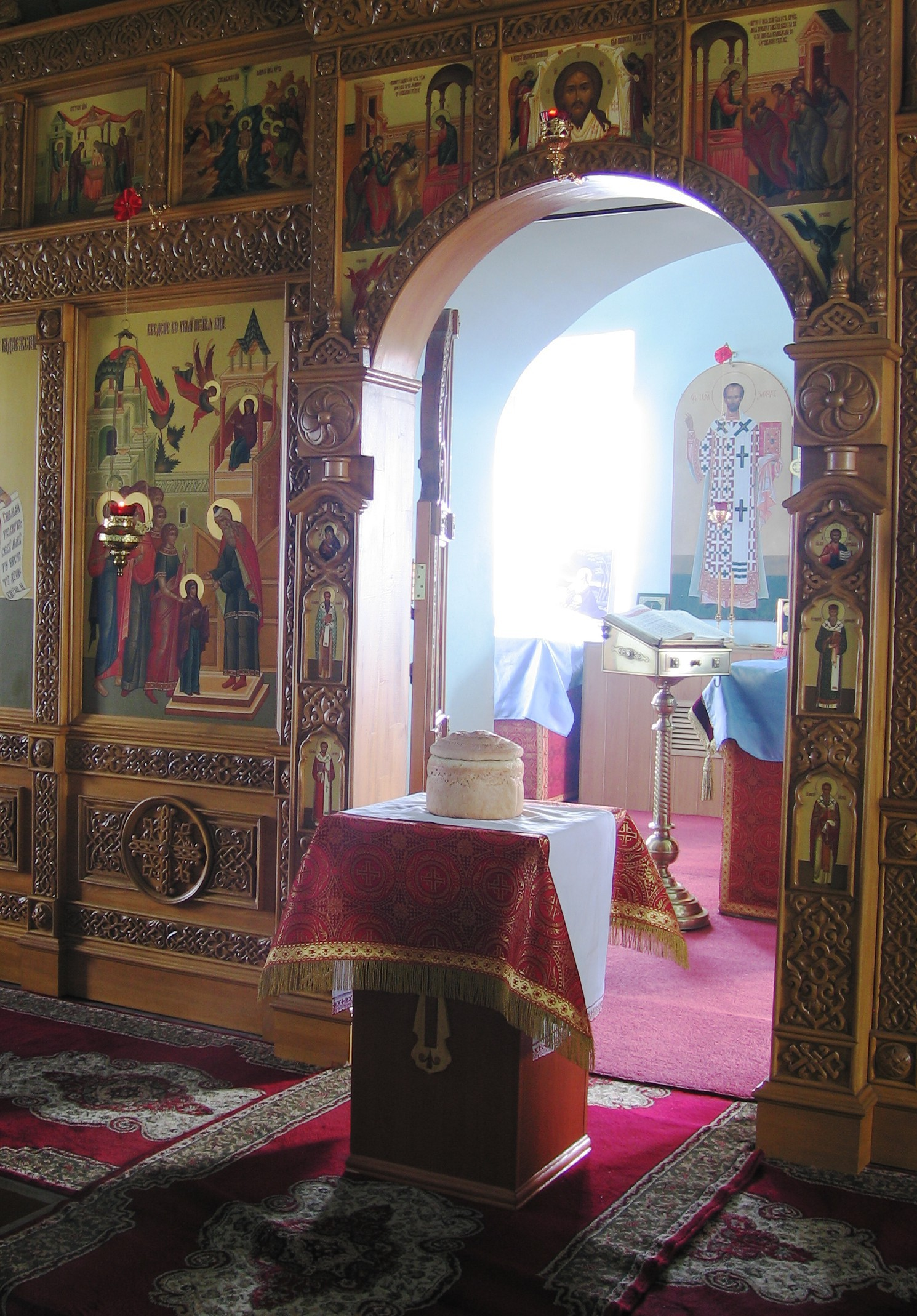 The Artos on an analogion in front of the Royal Gates